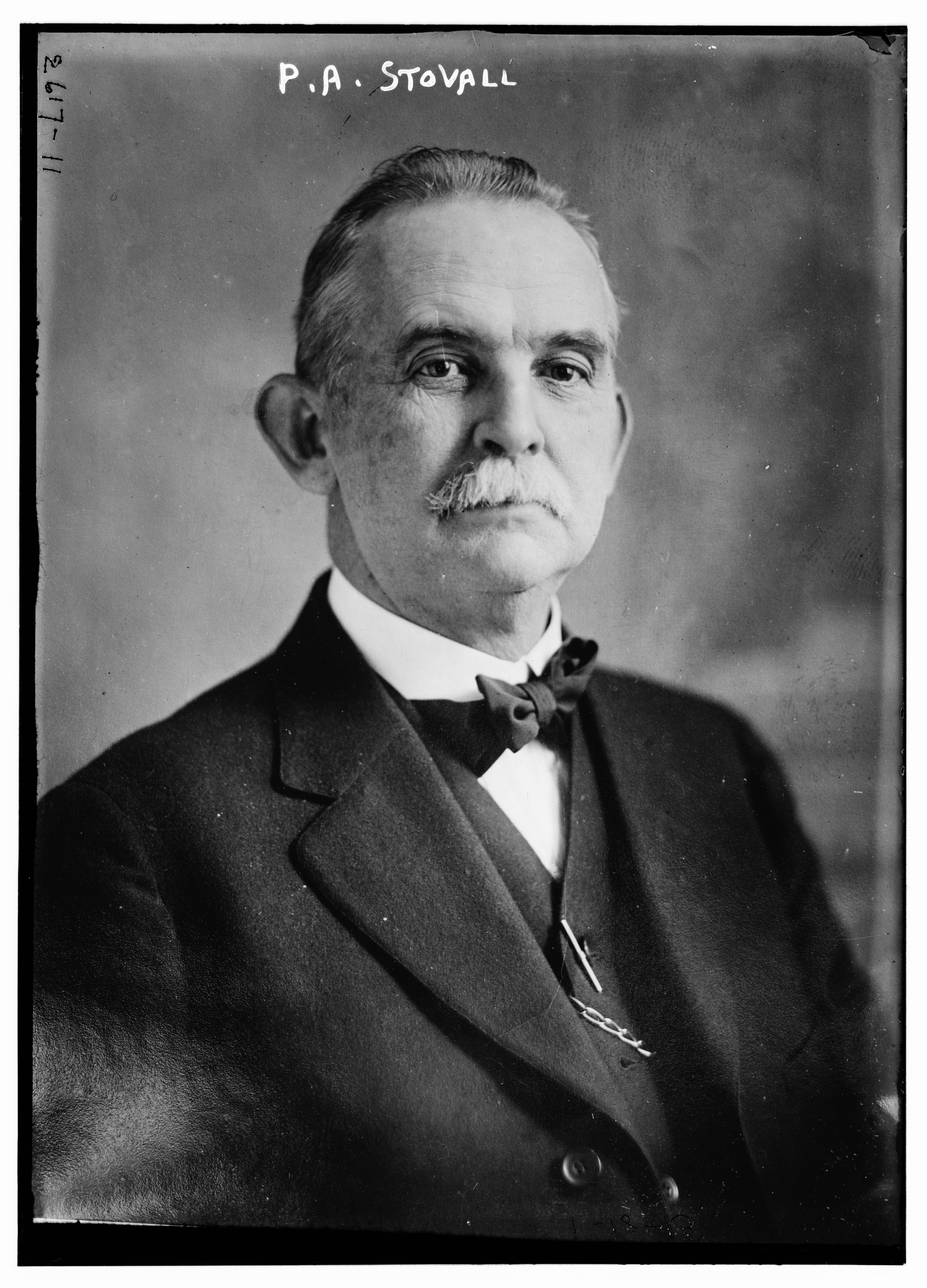 Pleasant Alexander Stovall circa 1910